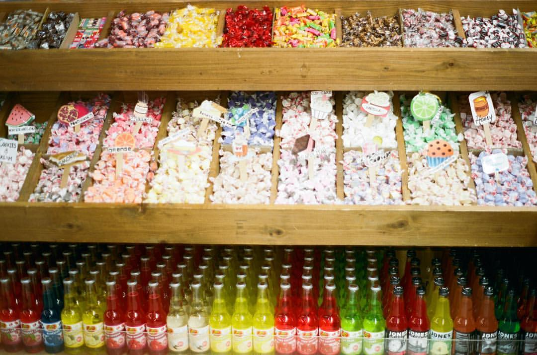 Image of salt water taffy taken in Portland, OR with a Minoltax570.